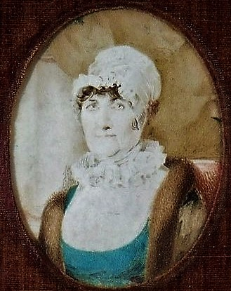 Miniature of the artist's mother, Susanna Thirtle